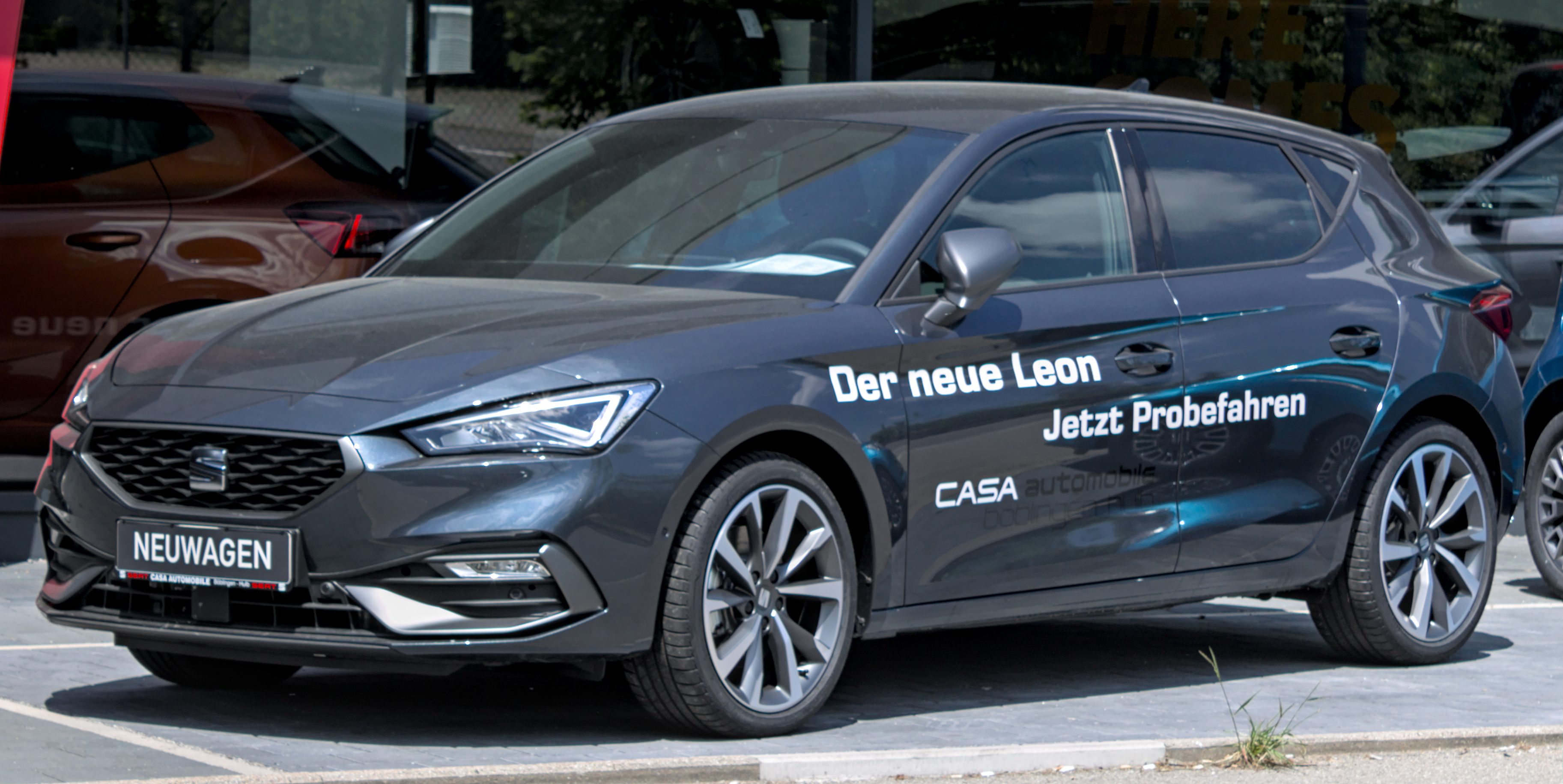 SEAT_Leon_Mk4 in Böblingen